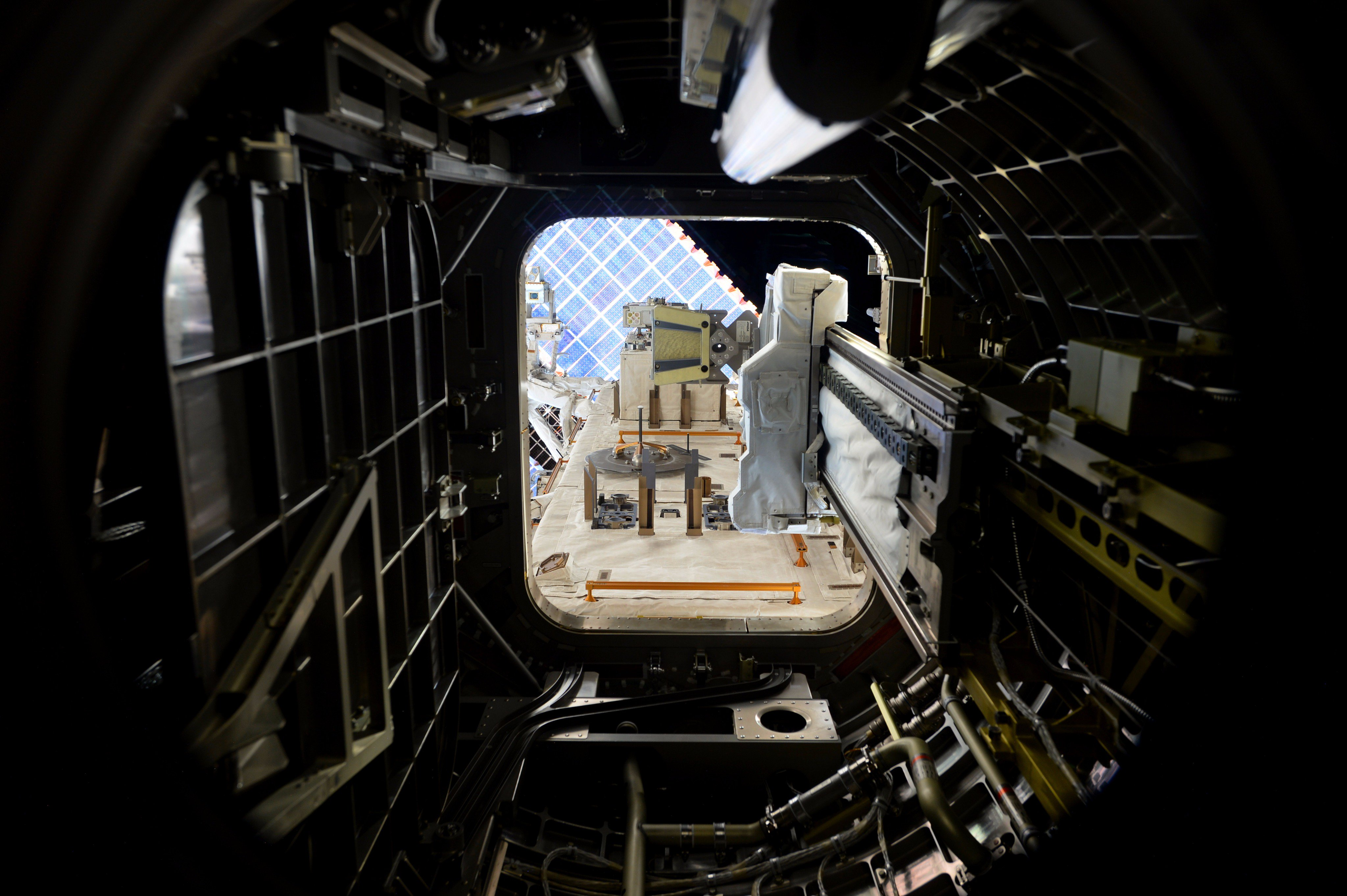 .@Astro_Sabot - Spacewalker and now Satellite builder as well. Once built satellites are taken out for launch through the JAXA Airlock.